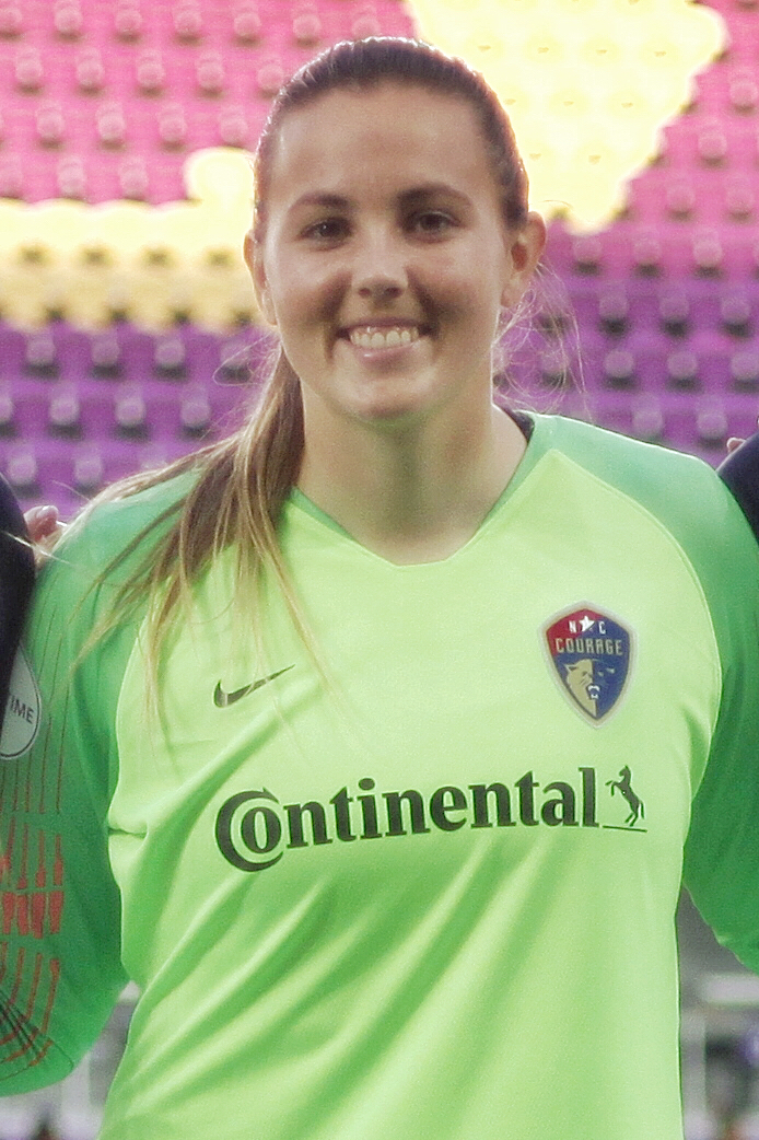 North Carolina Courage